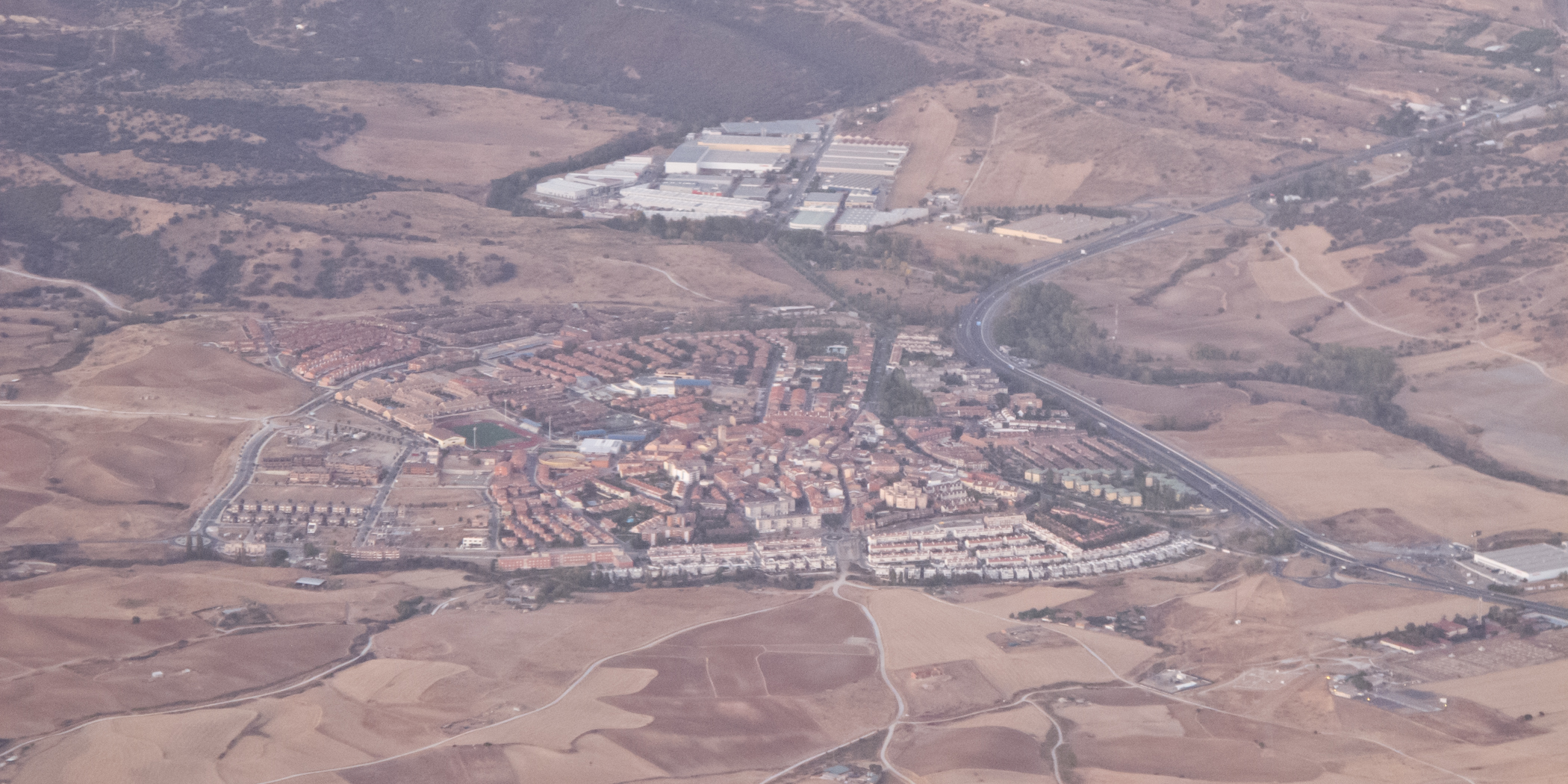 Aerial view of San Agustín del Guadalix, Community of Madrid, Spain.